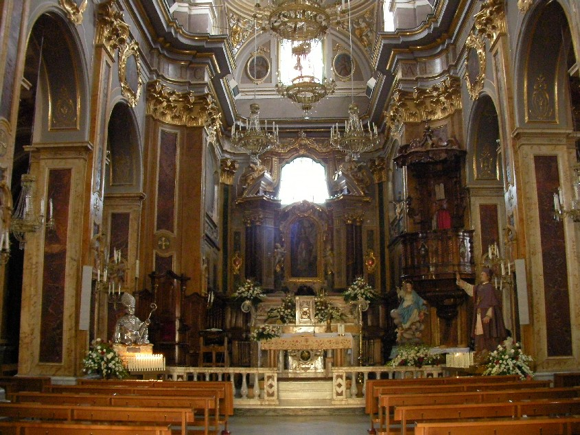 The inside of the cathedral of St. Leucio to Atessa